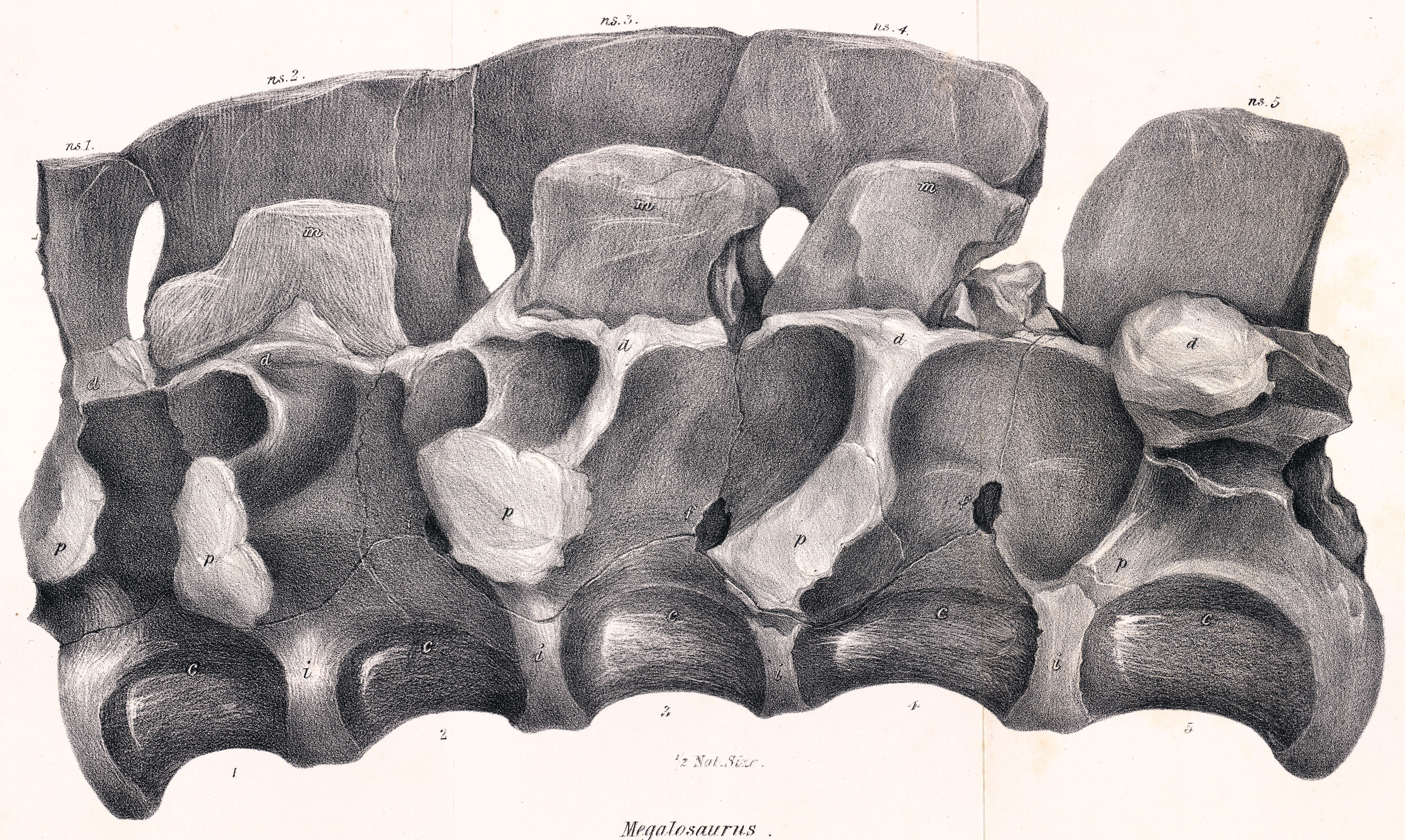 Sacrum of the Megalosaurus; half nat. size. From the Oolitic Slate of Stonesfield, Oxfordshire. In the Geological Museum, Oxford.